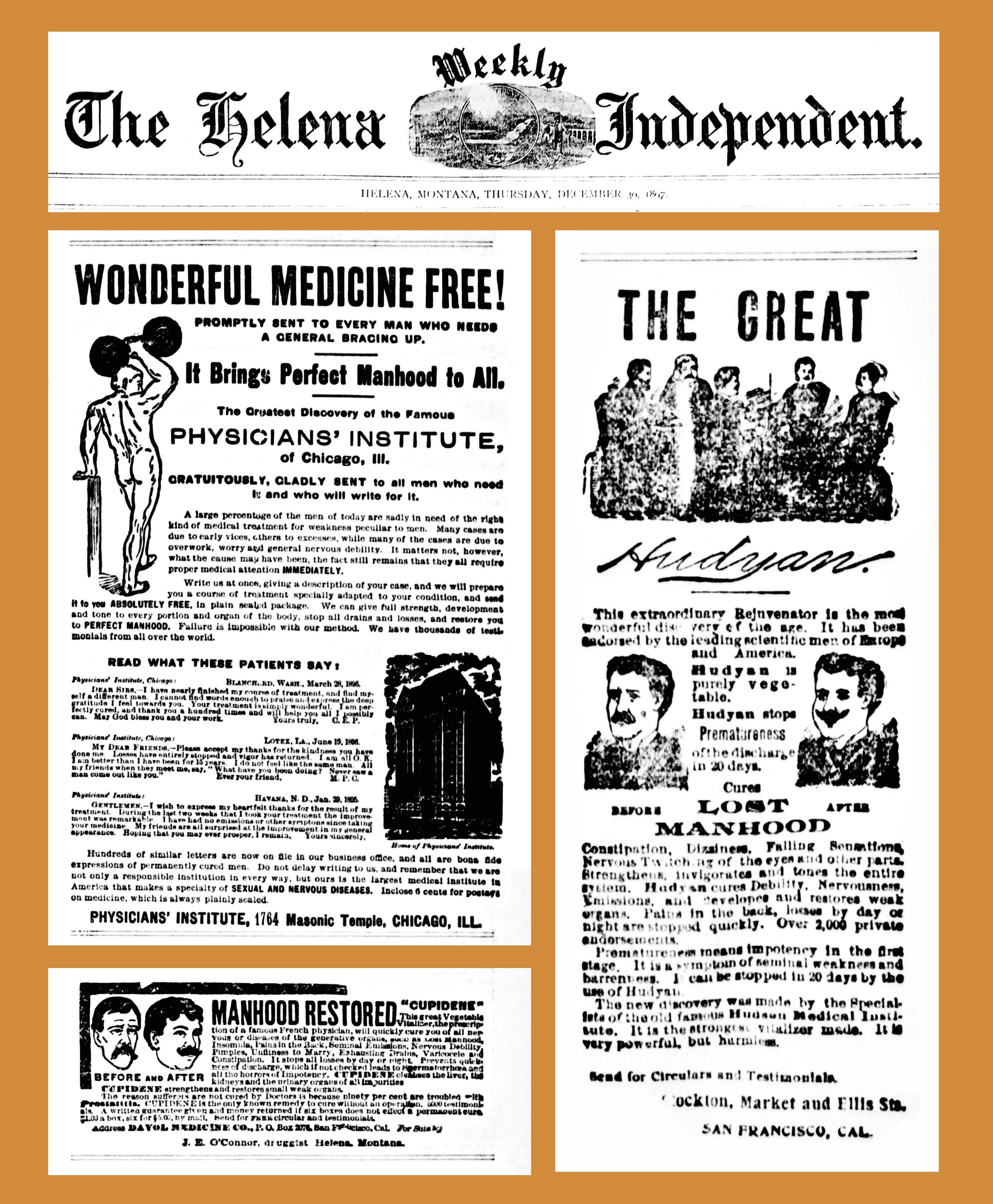 Male sexual dysfunction advertisements published in The Helena Weekly Independent (Helena, Montana, U.S., December 30, 1897)